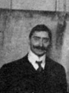 Robert B. Goldschmidt at 1911 Solvay conference (fragment of larger group photo at the conference)